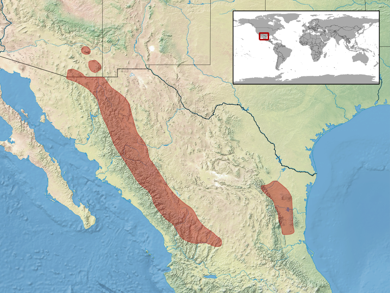 geographic distribution of Crotalus pricei (Native: Mexico; United States)